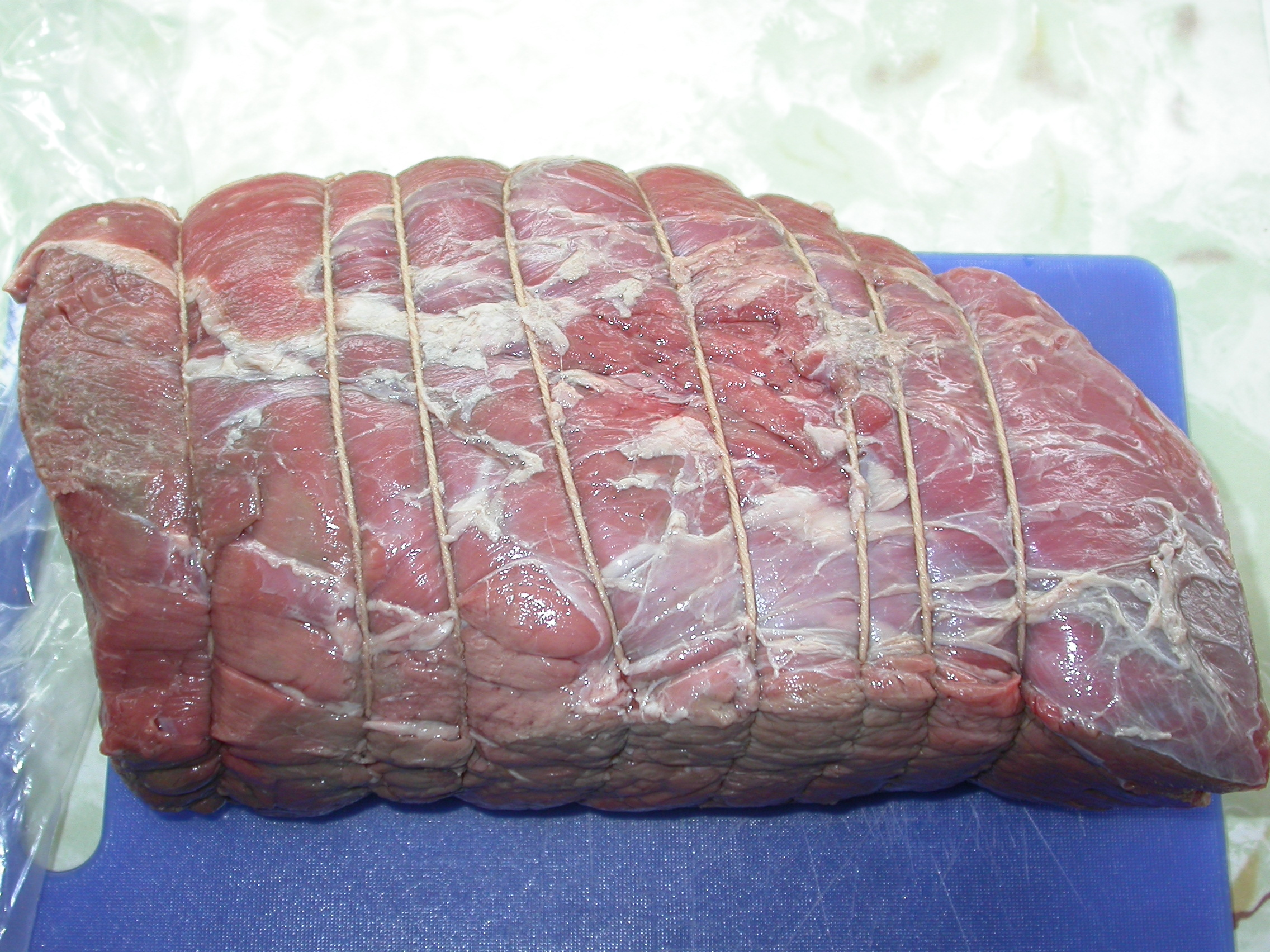 3kg Top Round Roast of beef